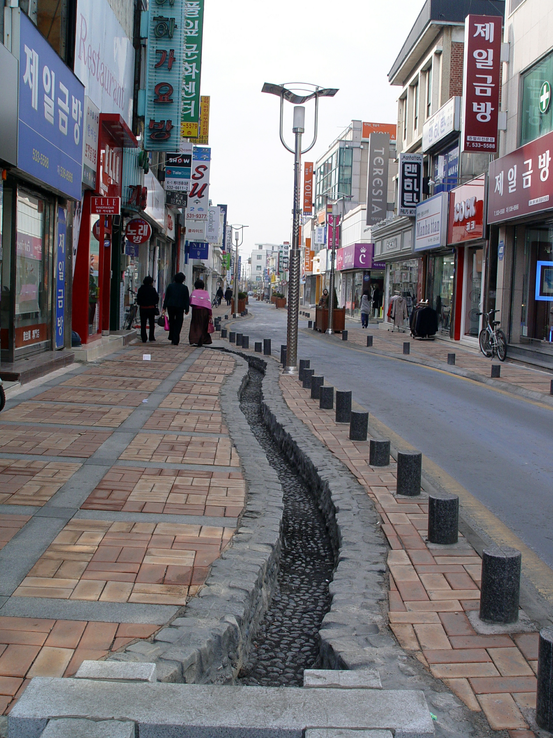 Street in central Jeongeup, South Korea